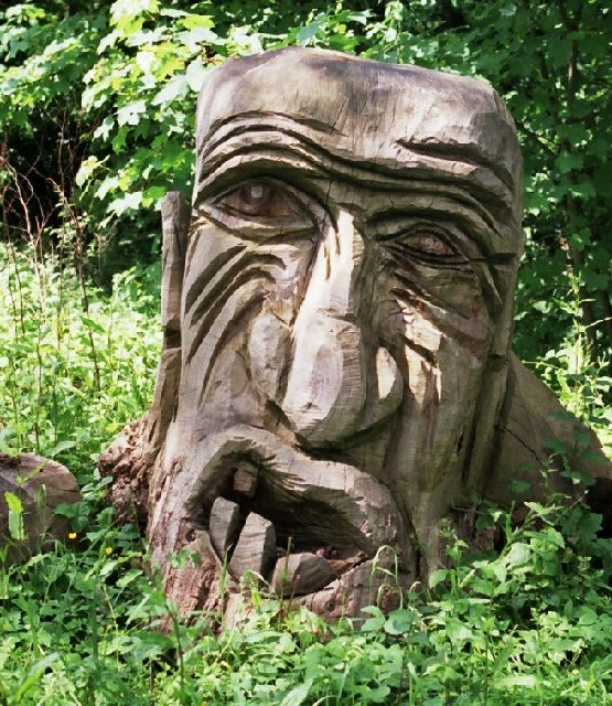 View Island. One of Reading's many secretive parks and open spaces. View Island is a wooded island in the Thames, accessible from Caversham Lock. Scattered through the woods are a series of sculptures like this one, carved from fallen tree-trunks with a chainsaw.